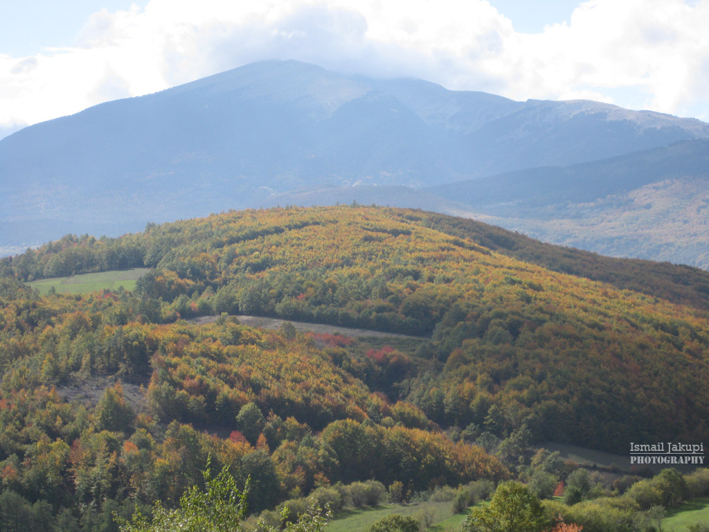 Pyjet e Brrutit